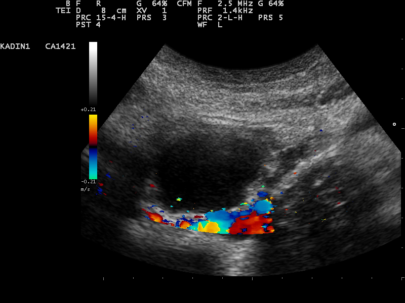 Medical ultrasound image. Provided as-is. Please feel free to categorise, add description, crop.